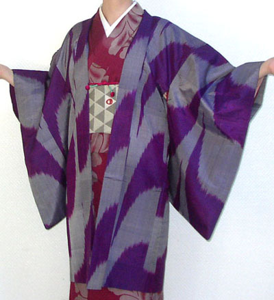 Meisen weave haori worn over a vintage fuji (wisteria) hitoe (unlined) kimono.